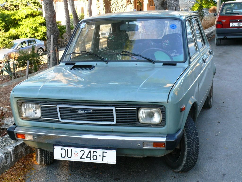 Zastava car in Croatia.